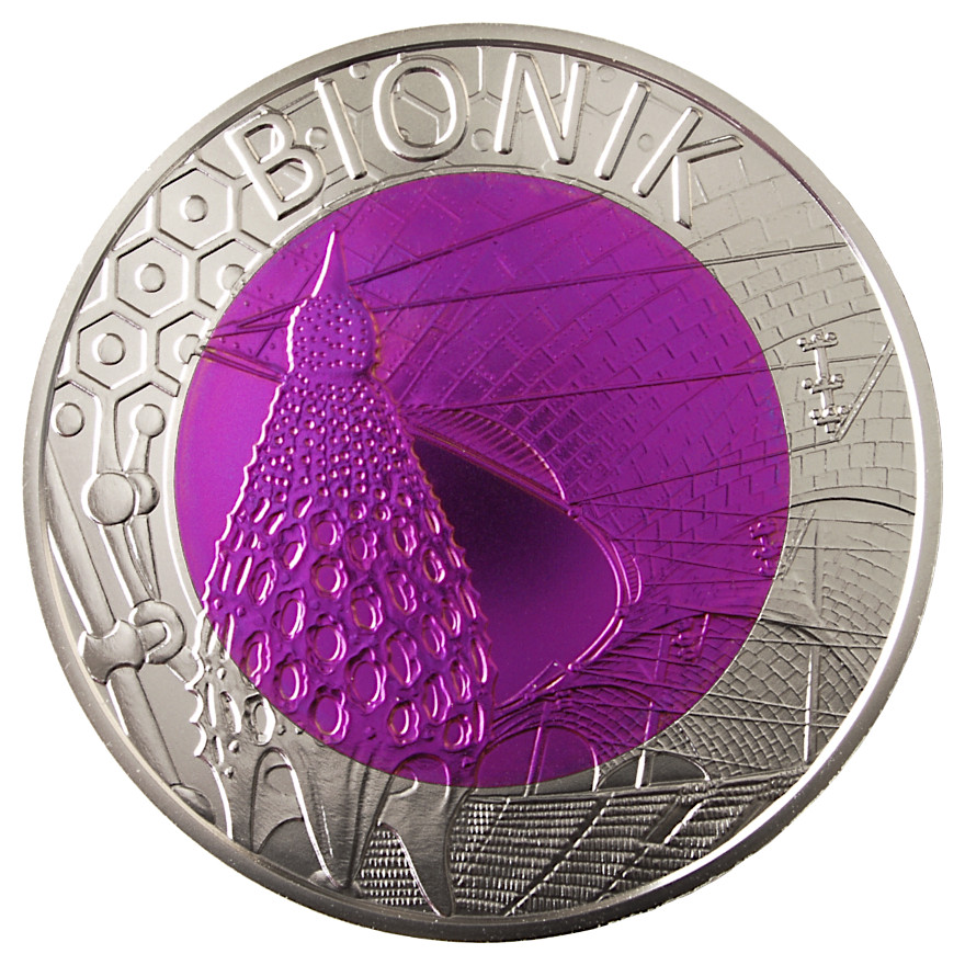 2012 bionics - Austria 25 Euro‚ niobium and silver, 9 g silver 900/1000 and 6,5 g pure niobium, d=34 mm, release date 22. February 2012, volume 65.000, designer Th. Pesendorfer / H. Wähner